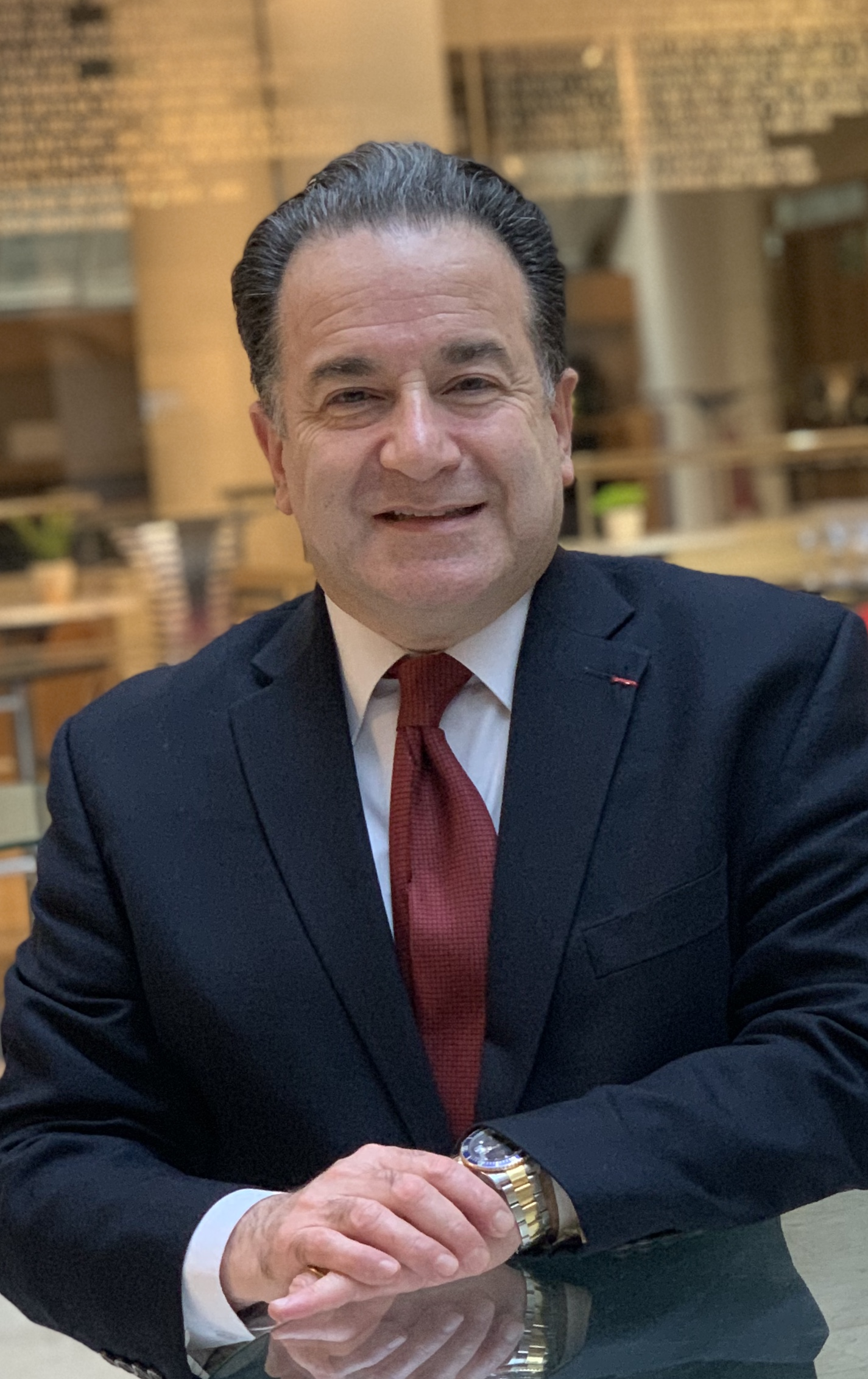 Nadey Hakim, transplant surgeon, Royal Society of Medicine (2020)